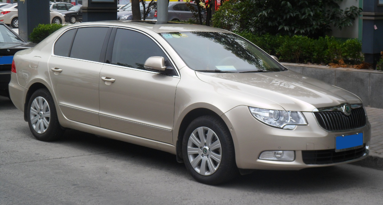 Škoda Superb II photographed in Shanghai, China.